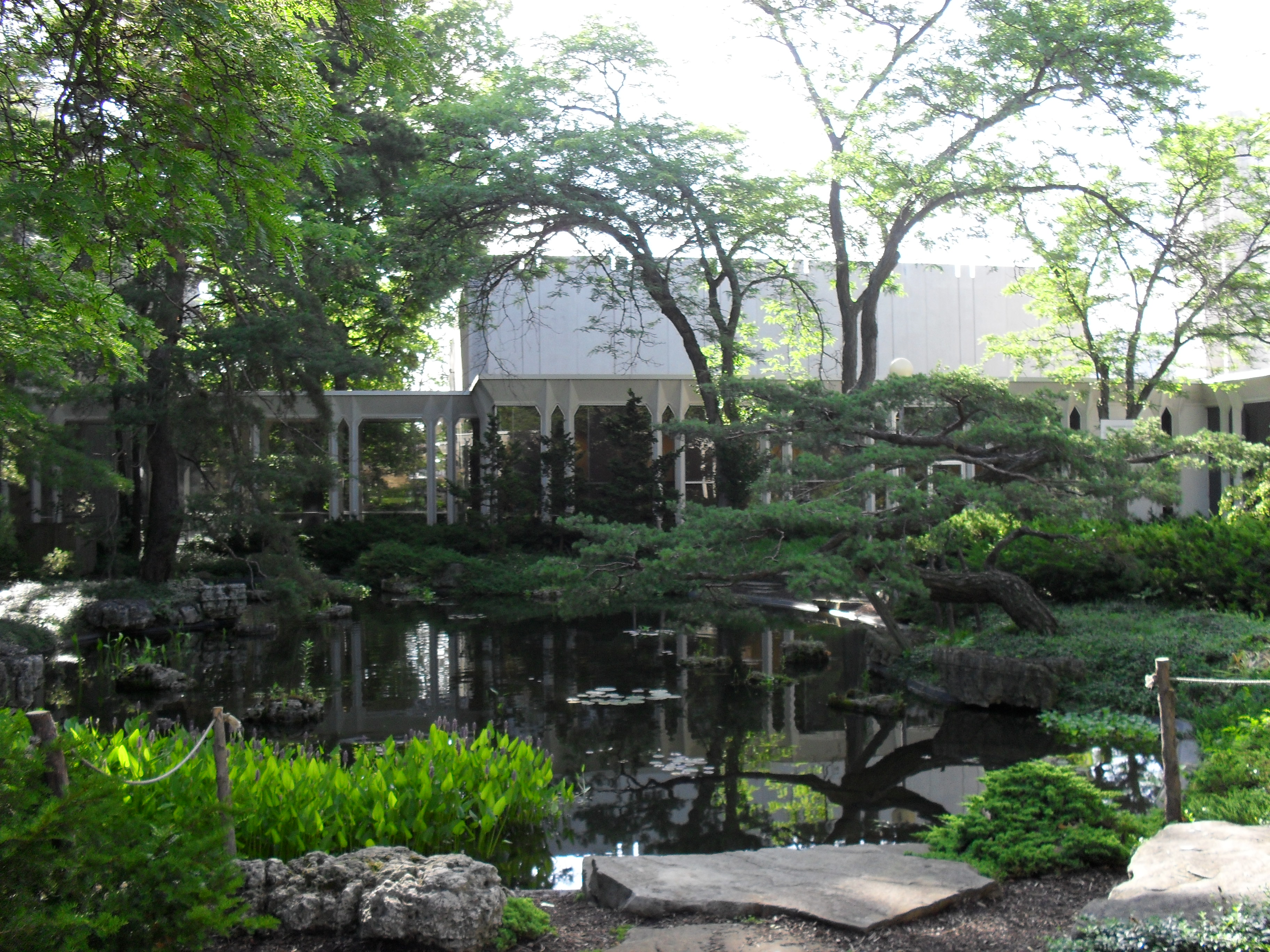 This is a view of the Oberlin Conservatory in Oberlin, Ohio.